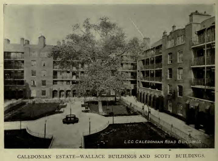 Image from the Report of the Housing for the Working Classes Committee, London County Council. 1912-1913. William Edward Riley signature appears on the drawings, and he signed off all the building depicted. (1913) Housing of the working classes in London. Notes on the action taken between the years 1855 and 1912 for the better housing of the working classes in London, with special reference to the action taken by the London County Council between the years 1889 and 1912 (Odhams, Digitised by Google ed.), London: London County Council Retrieved on 8 June 2016. Caledonian Estate- Wallace and Scott Buildings